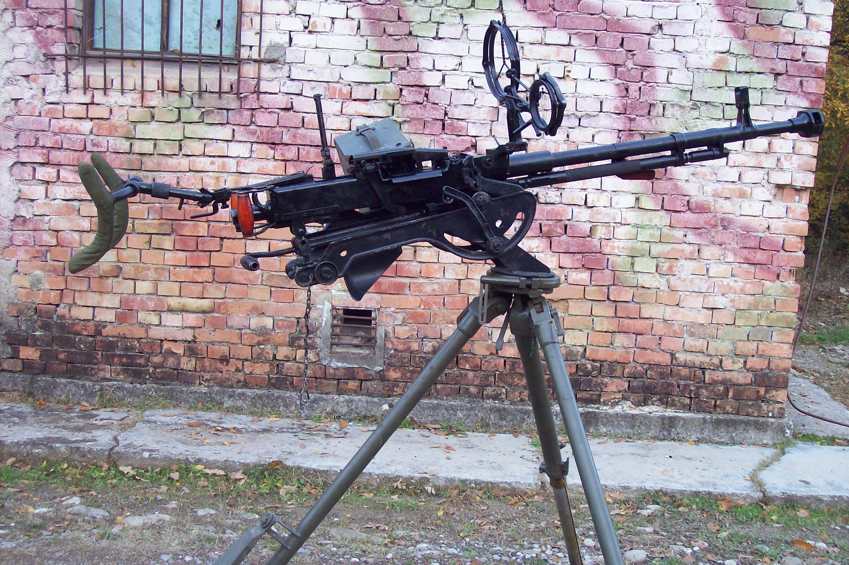 An Albanian DSHK 12.7 mm probably of Chinese origin - Close Air Defence version.